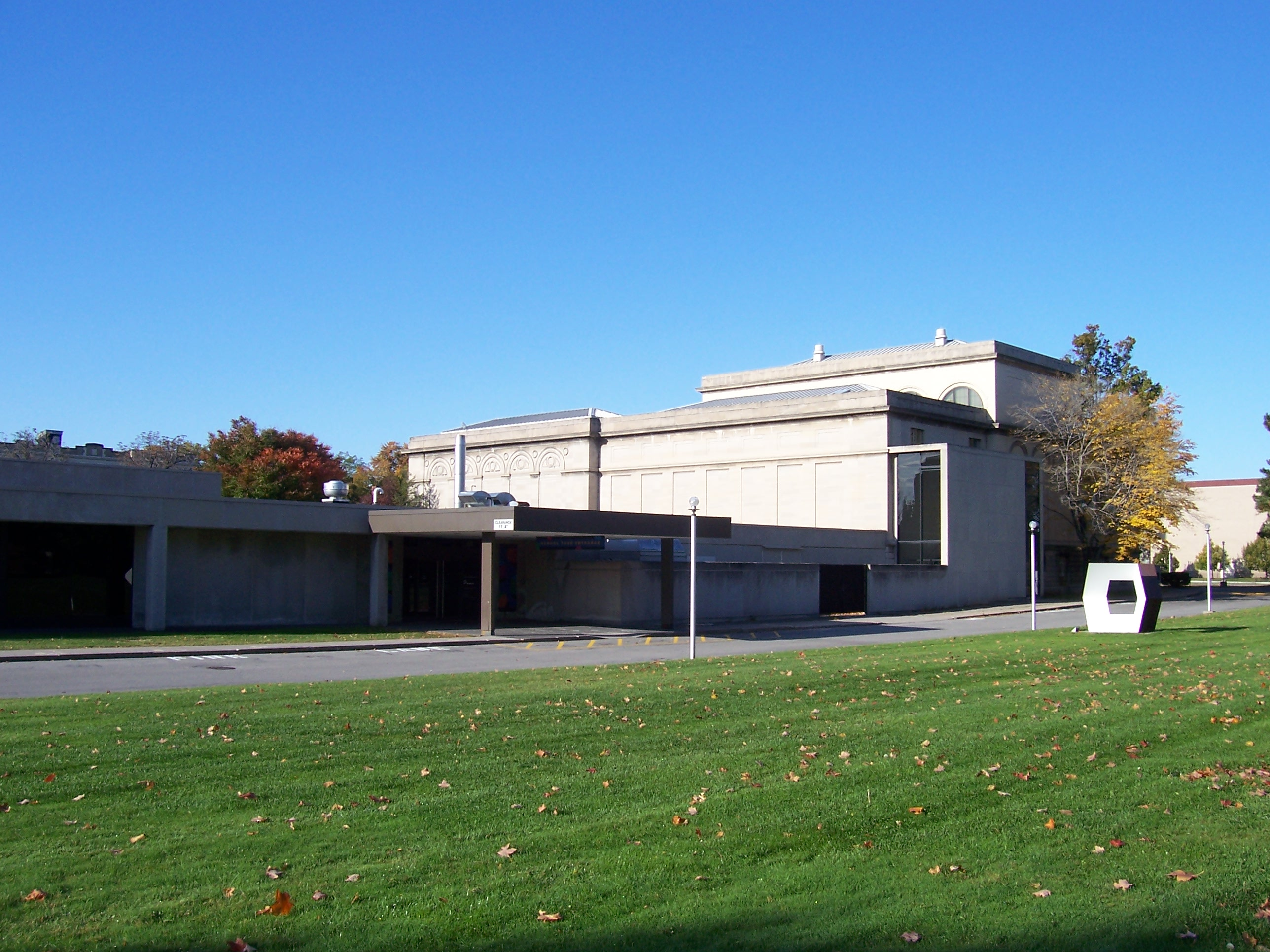 1968 entrance of the Memorial Art Gallery